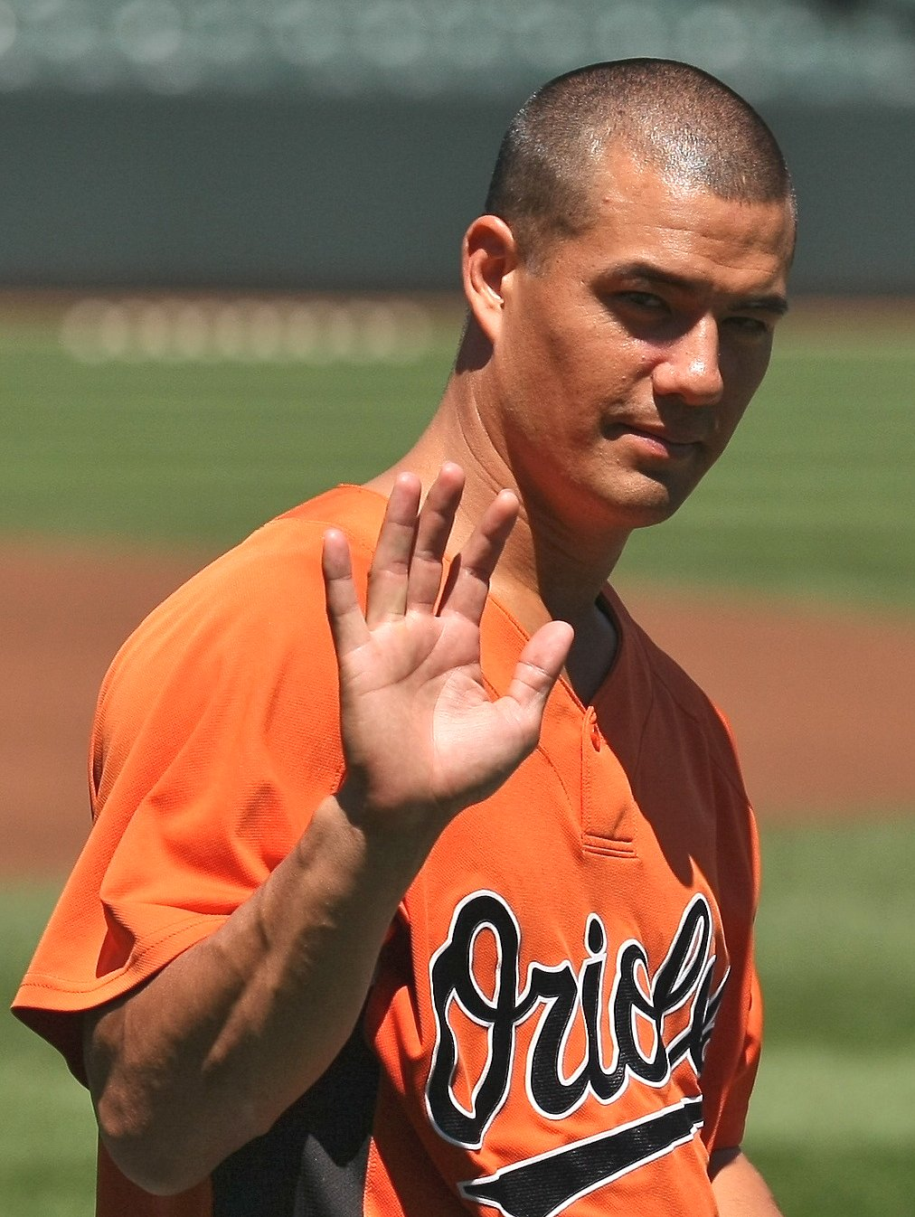 Jeremy Guthrie